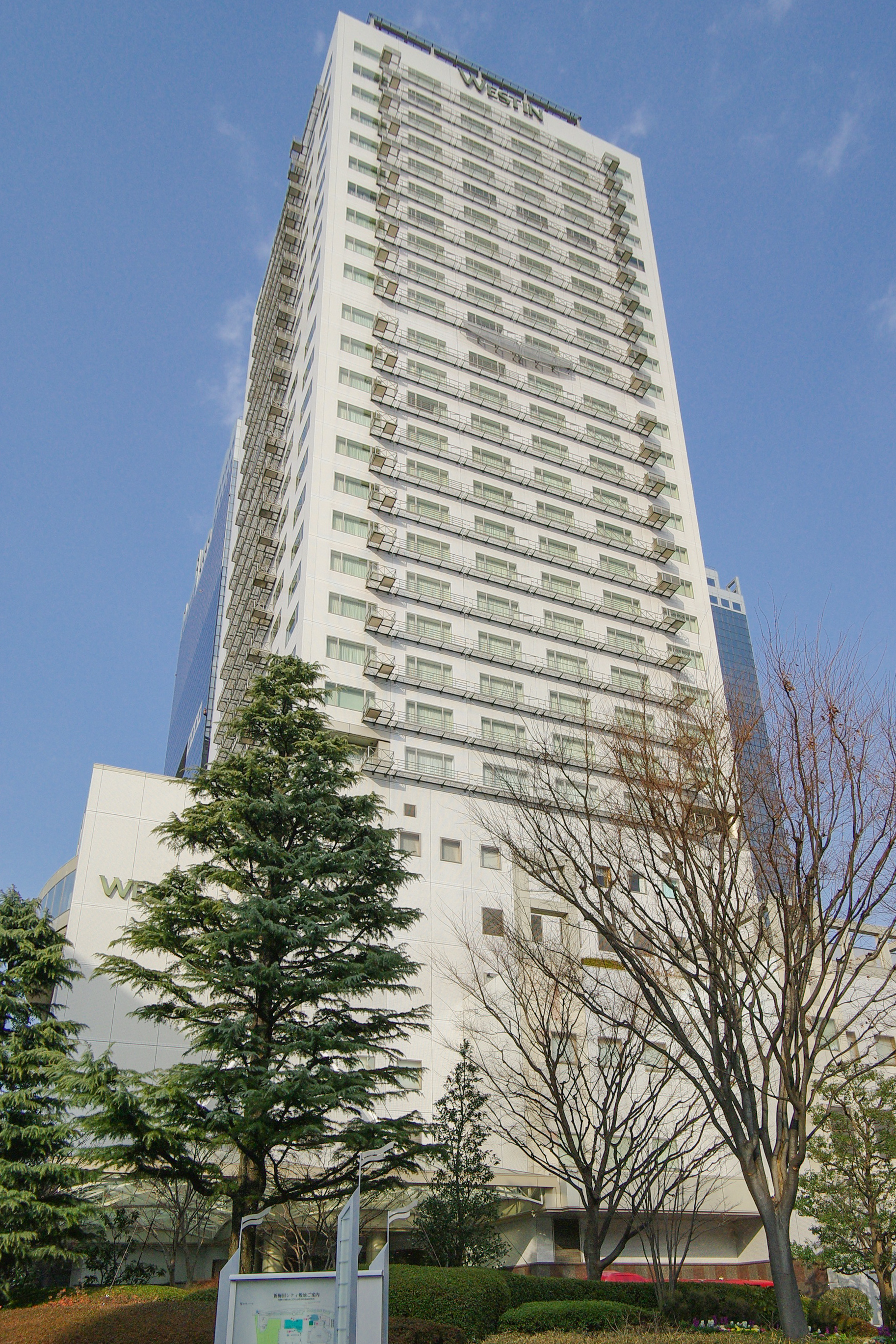 Photograph of the south view of the Westin Osaka in Kita-ku, Osaka, Osaka Prefecture, Japan.